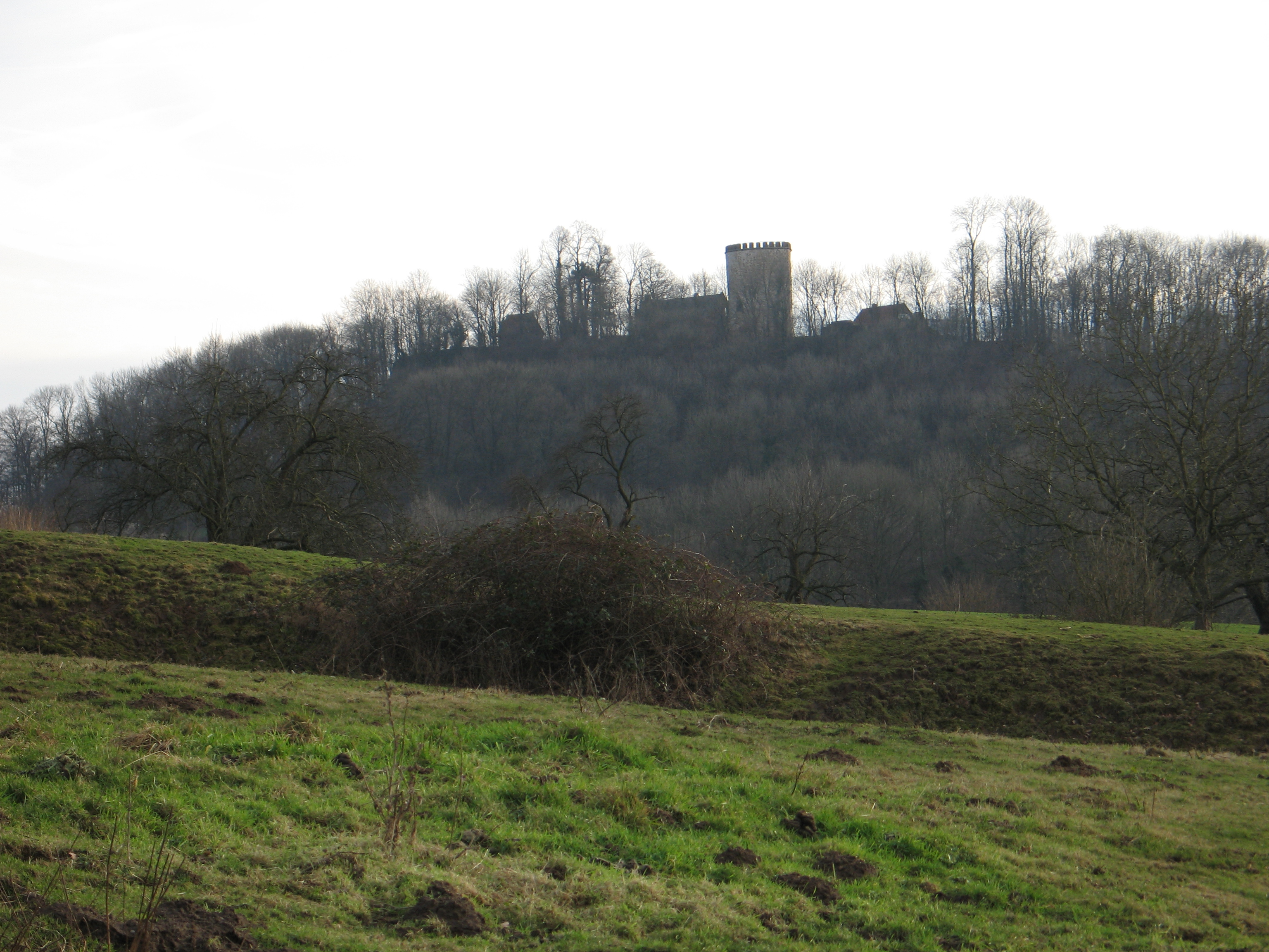 Stronghold Ravensberg in Winter, NW-View. Teutoburg Forest, the range of forested hills in the German states of Lower Saxony and North Rhine-Westphalia